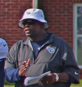 Tennessee Titans running backs coach Sylvester Croom coaches during joint training camp with the Atlanta Falcons in Flowery Branch, Ga. on Aug. 4, 2014.